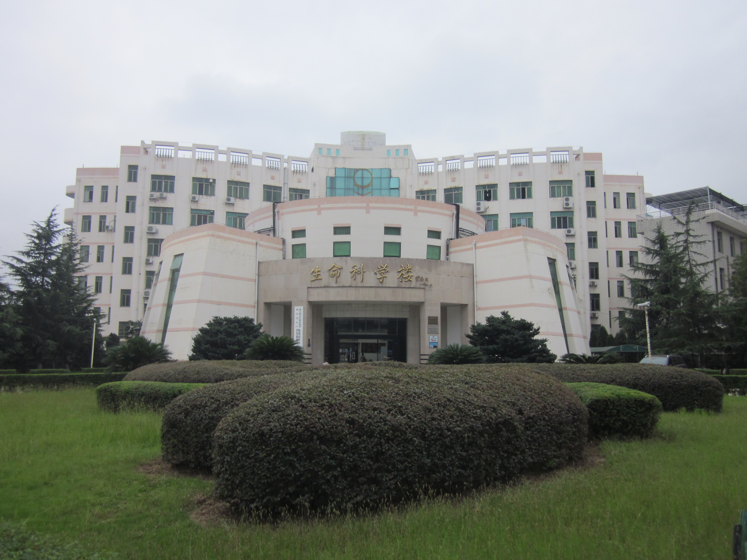 Hunan Agricultural University (Chinese: 湖南农业大学 pinyin: Húnán Nóngyè Dàxué, commonly referred to as HAU or Nongda) is a public research university located in Changsha, Hunan, China.